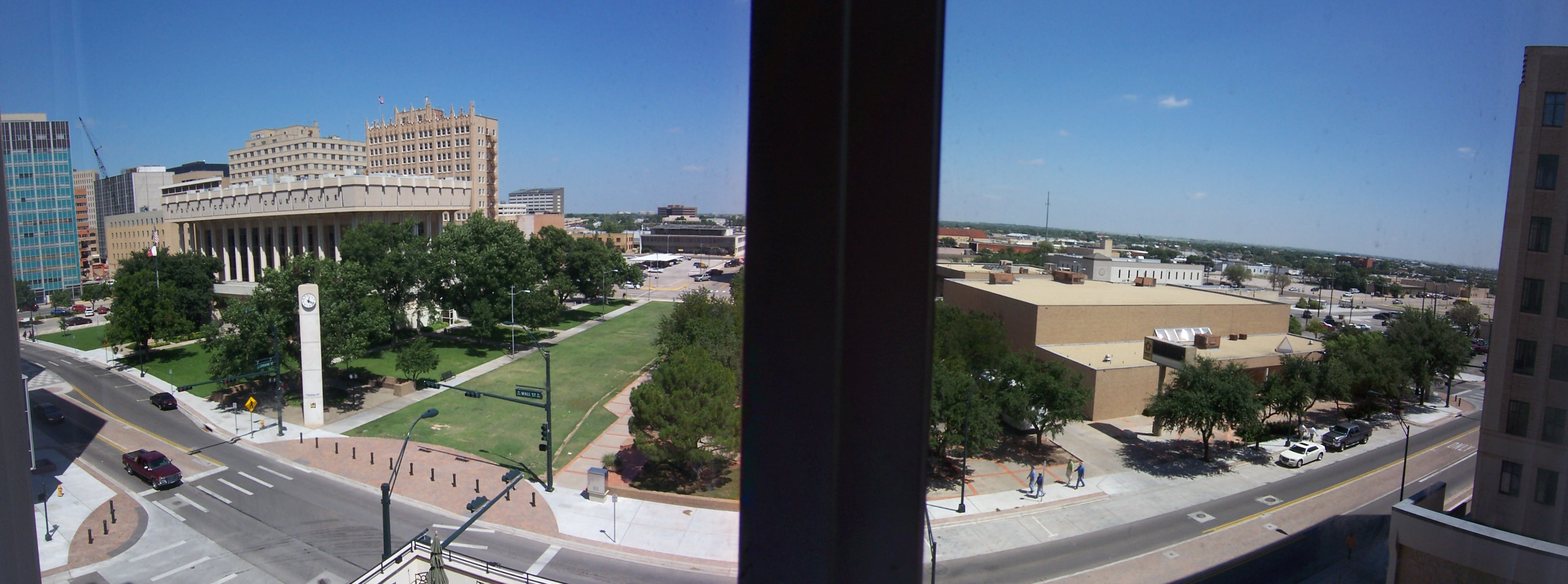 Midland County Courthouse, Midland, TX (on left) looking north across Wall Street from a room at the Midland Hilton